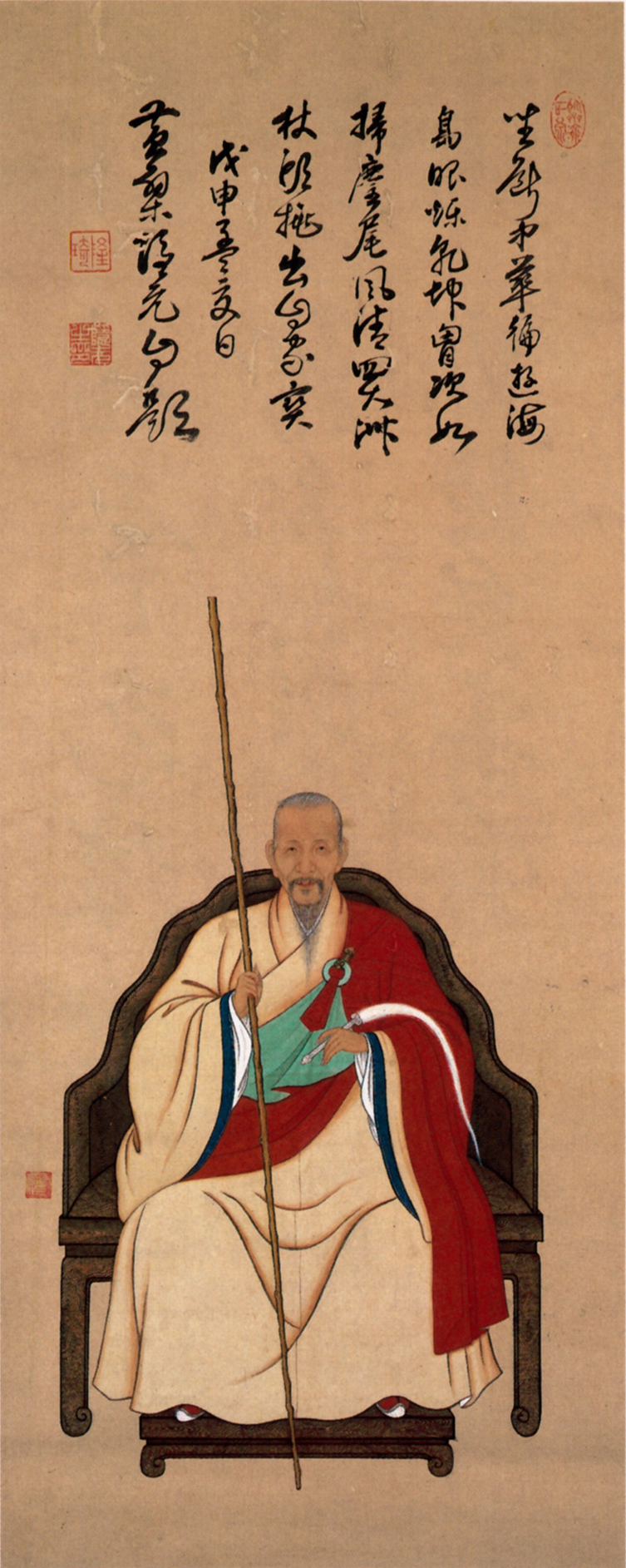 Portrait of Yinyuan,Kita Chobei,Inscription by Yinyuan,Triptych hanging scrolls,color on paper,Kobe City Museum